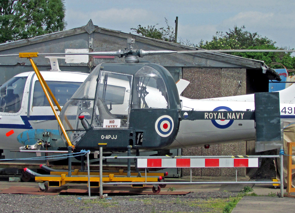 Fairey Ultralight Helicopter G-APJJ preserved at the Midland Air Museum Coventry in 2015